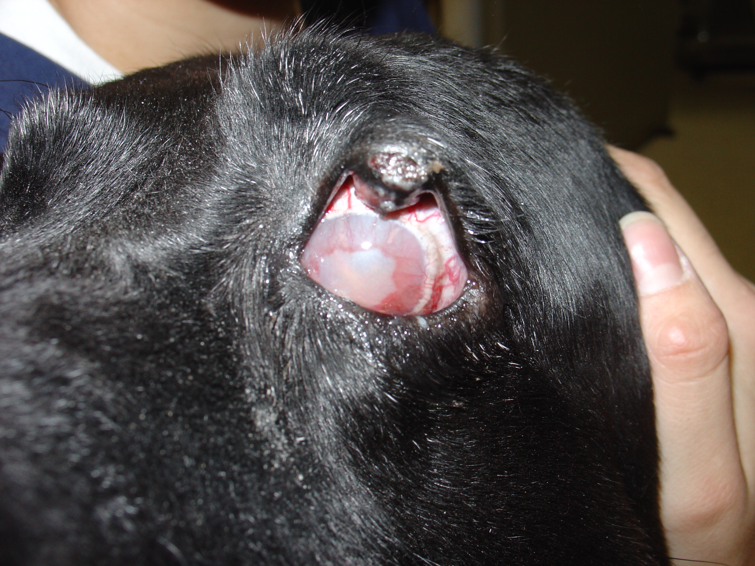 Photo of a dog with glaucoma. Symptoms seen here include buphthalmos (enlargement of the eye), corneal edema, deep corneal vascularization, and episcleral injection. The large upper eyelid mass is probably a Meibomian gland adenoma.